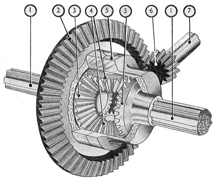 Differential (Manual of Driving and Maintenance).jpg